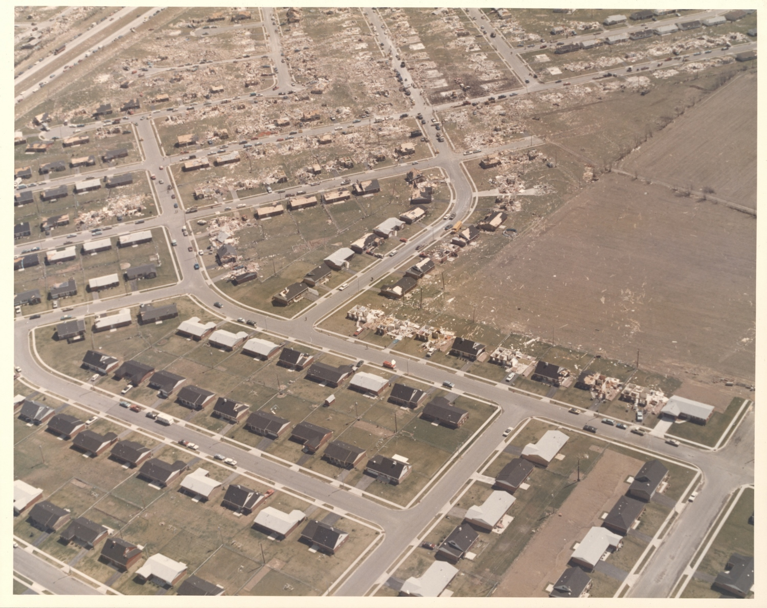 F5 damage in the Arrowhead/Windsor Park area of Xenia, Ohio. (For reference: The empty field is the future location of McKinley Elementary School. The photograph appears to be taken from an elevation of about 2,120 feet (650 m) above sea level, looking at ground at about 943 feet (287 m) above sea level.)